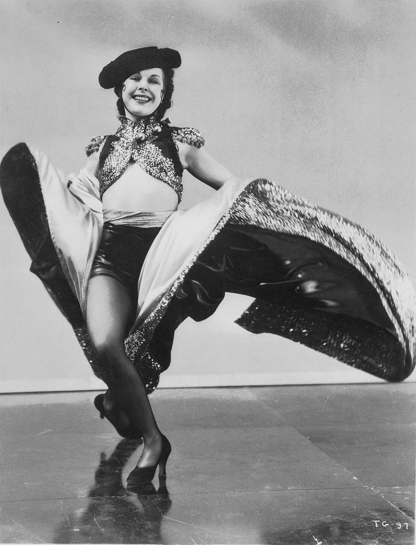 Joan Woodbury performing 'Toreador' dance, from 'There Goes My Girl', ca. 1930, Sam Hood, State Library of New South Wales, PXE 789 (v.57)